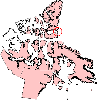 Location of Coburg Island, Nunavut, Canada